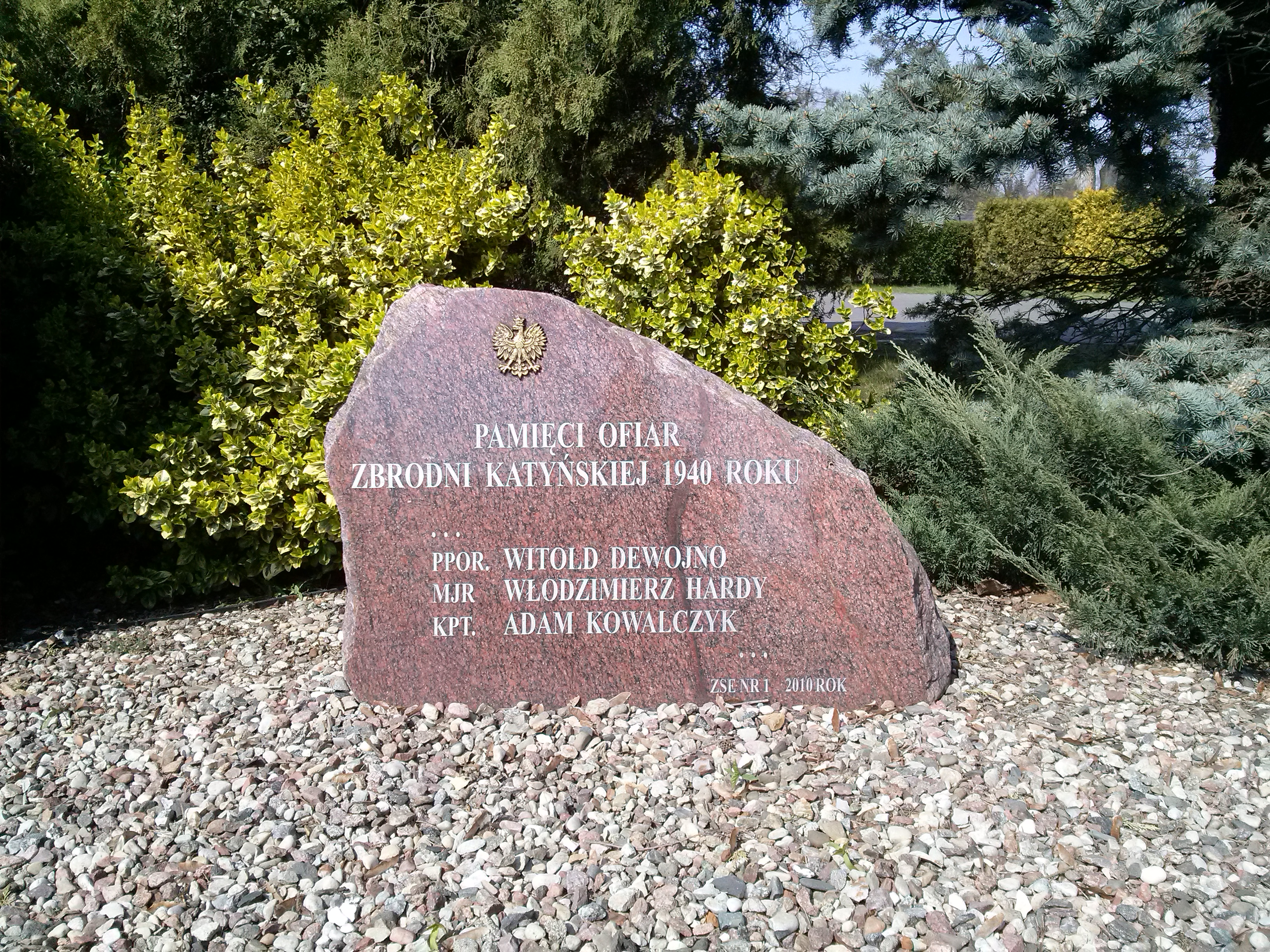 Katyn masacr monument. Poznan, Ogrody, Dabrowskiego 163 Street.